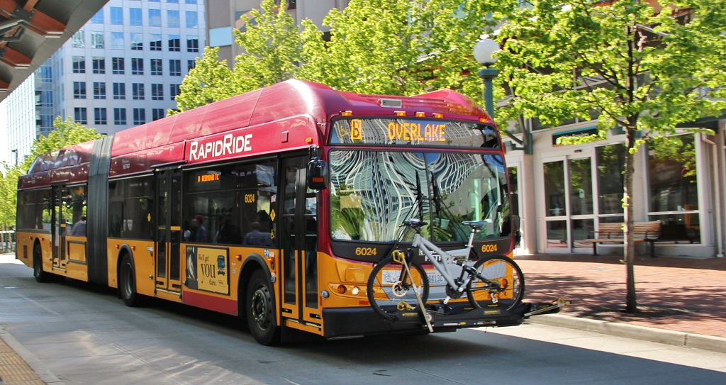 One of King County Metro's New Flyer DE60LFRs in service on the Rapid Ride B-line at the Bellevue Transit Center.